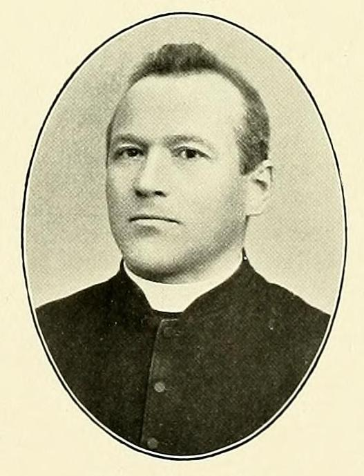 Portrait of the Italian mycologist G. Bresadola